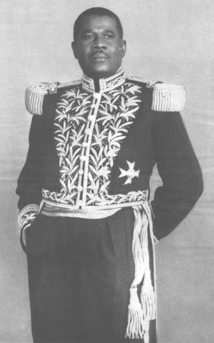 Paul Magloiret, President of Haiti (1950-1956)